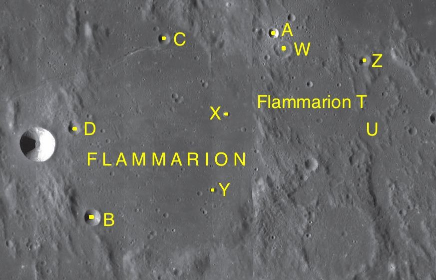 Part of the chart LAC-77